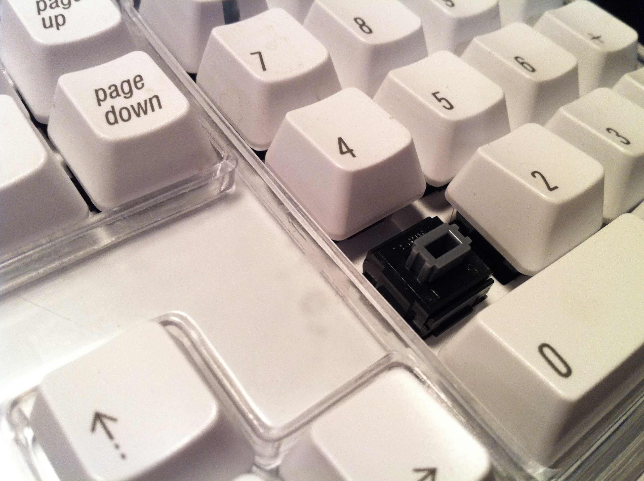 Matias Tactile Pro grey ALPS switch